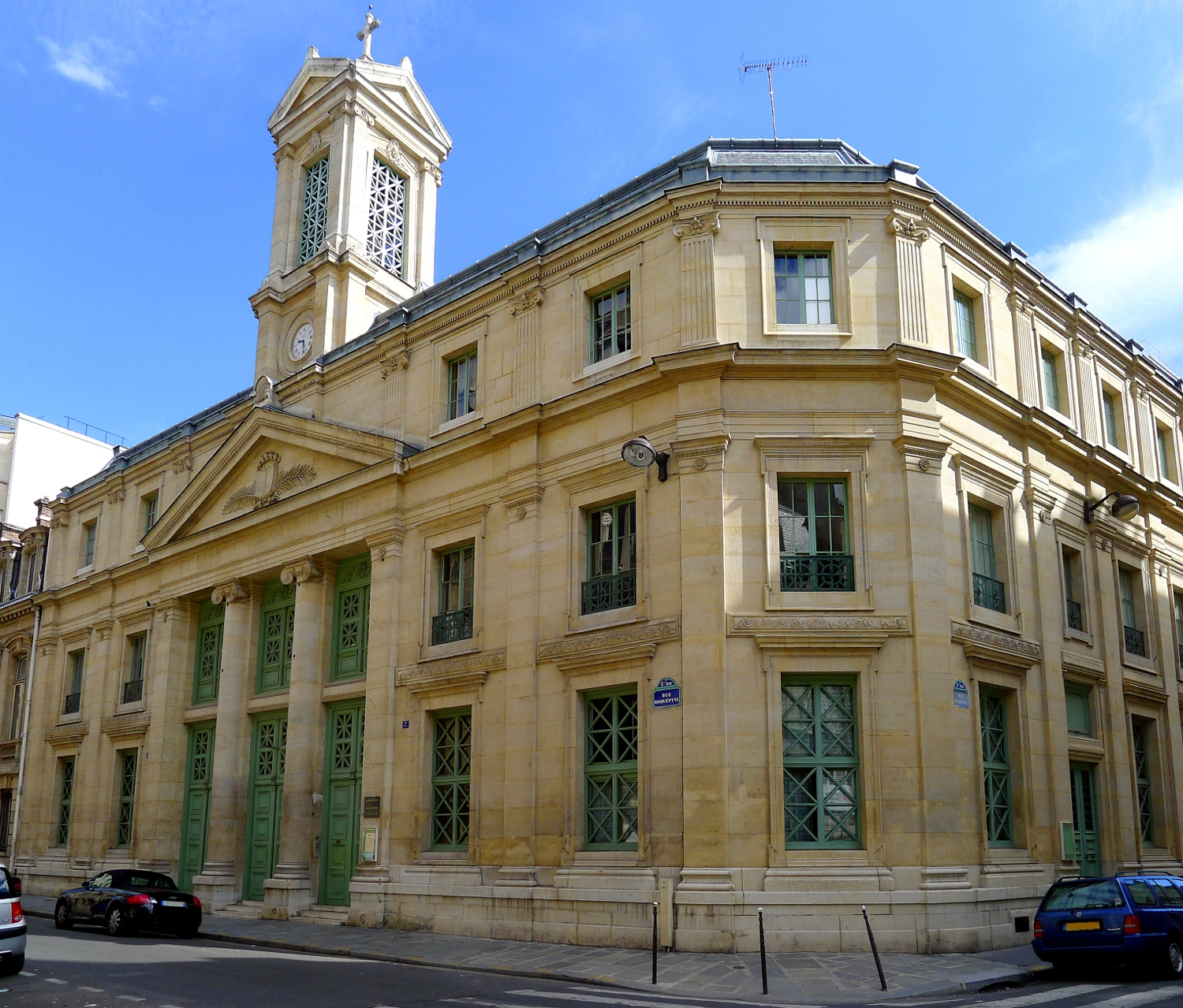 Roquépine street - Paris